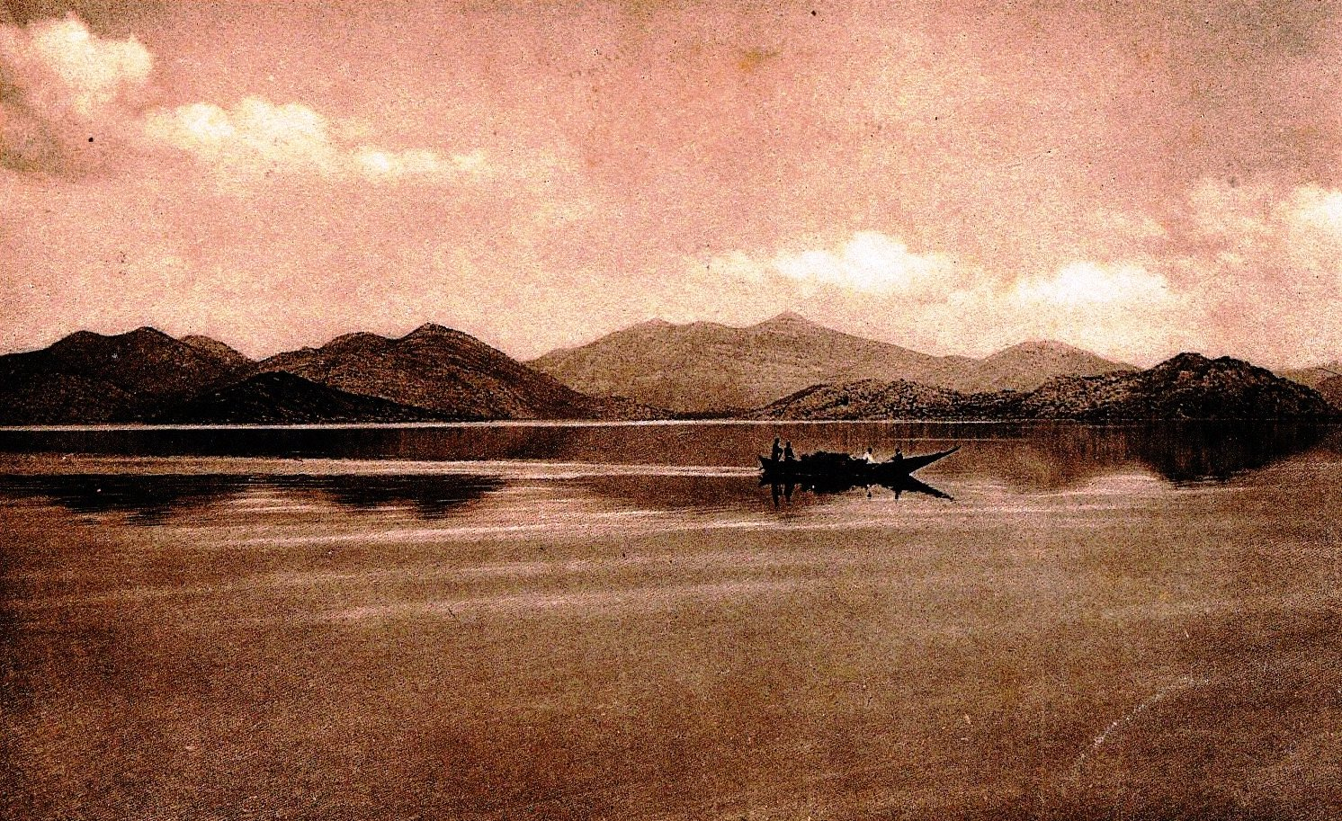 Postcard of Lake Skadar, upperd part. 1920's This media file is produced by Wikipedian in Residence in Category:Wikipedian in Residence at DARM in 2016.